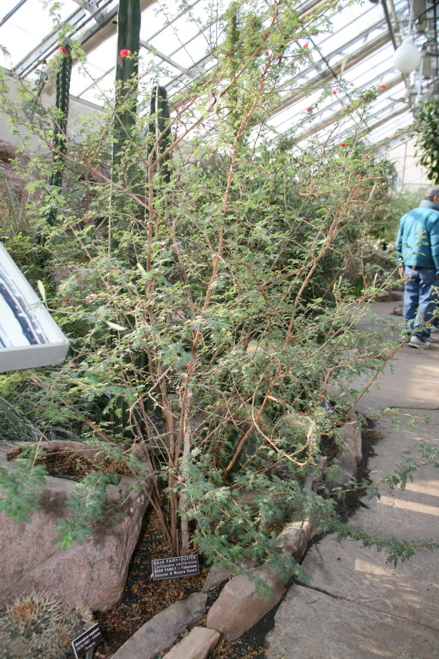 Baja Fairy-Duster (Calliandra californica)